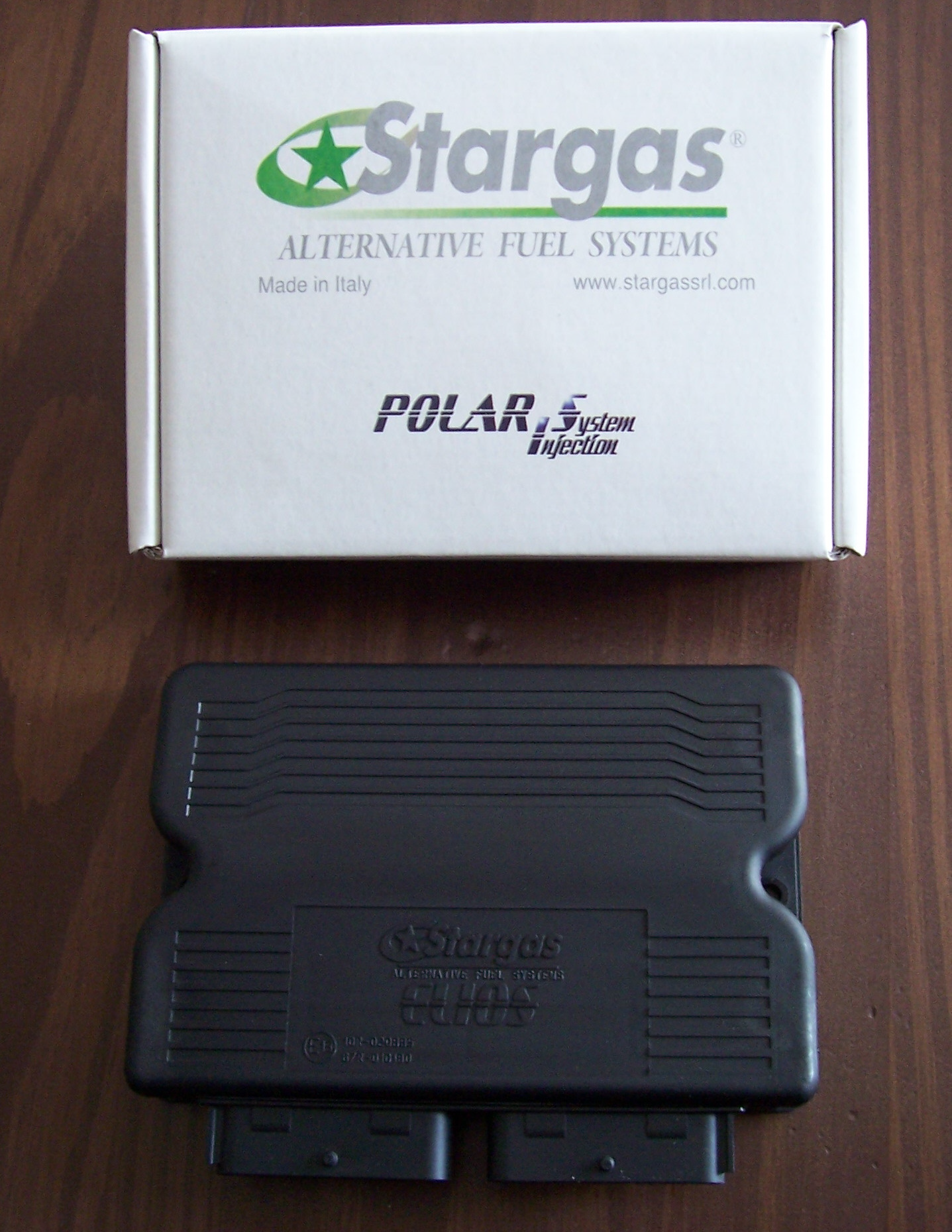 Electronic Control Unit of the LPG conversion system called Polaris, produced by the Italian company Stargas Srl.